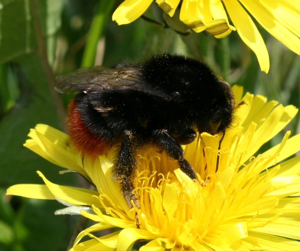 Bombus (Melanobombus) lapidarius - Large red-tailed bumblebee (female)